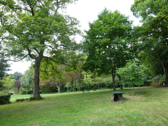 An August afternoon in Moseley Park (5)